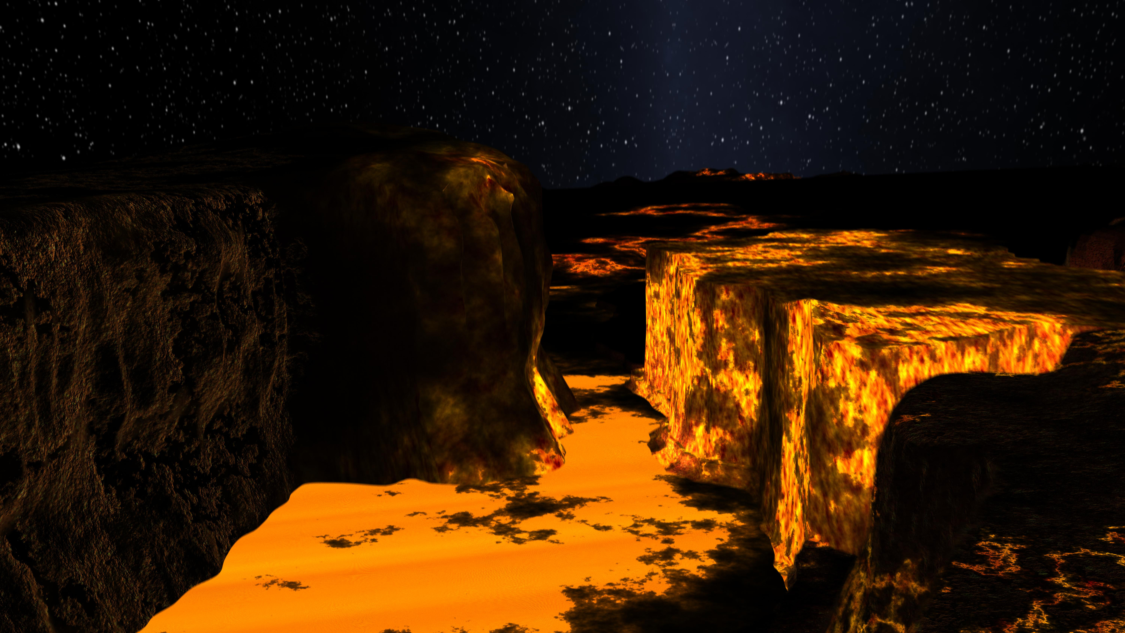 The daytime temperature’s expected to be more than 2,500 degrees Fahrenheit, hotter than lava flows here on Earth, hot enough to melt iron! Many years ago, before Kepler launched, members of what became the Kepler team built a robotic telescope at Lick Observatory to learn to do transit photometry--detecting drops in brightness of stars when planets pass in front of them. We called it the “Vulcan Telescope,” named after the hypothetical planet that scientists in the 1800’s thought might exist between the Sun and Mercury. A planet that might explain the small deviations in Mercury’s orbit that were later explained with Einstein’s theory of general relativity.